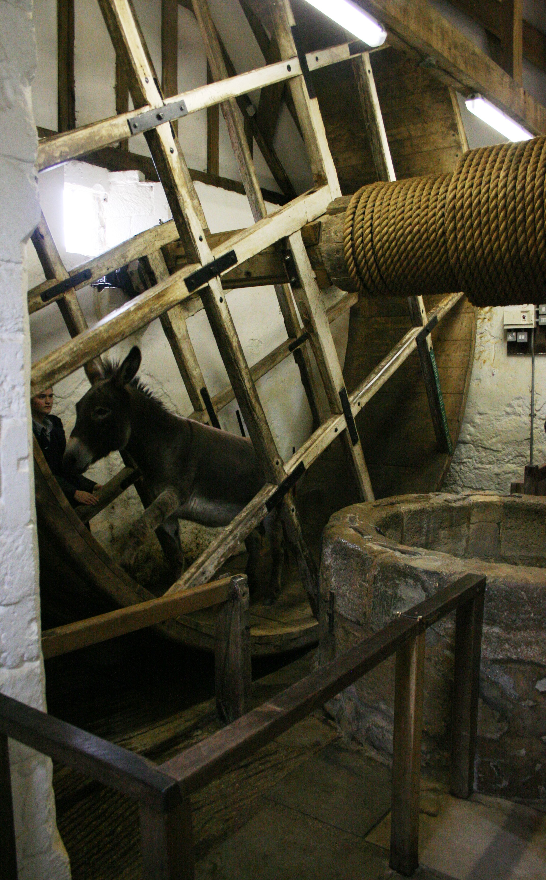 A donkey operating the well at Carisbrooke Castle